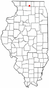 Category:Illinois city locator maps